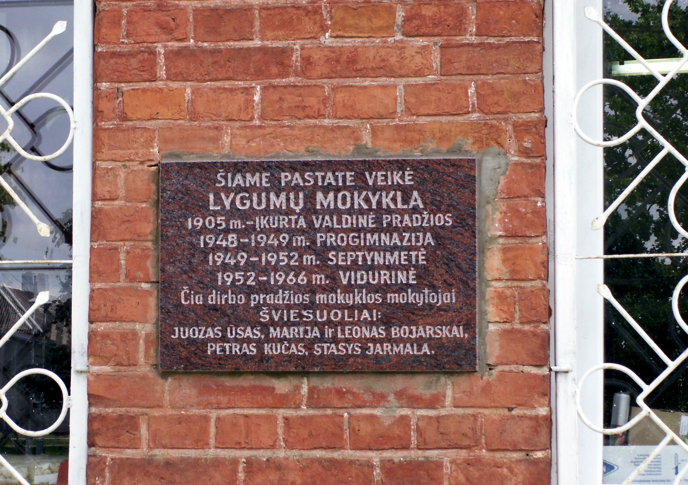 Lygumai, Pakruojis district